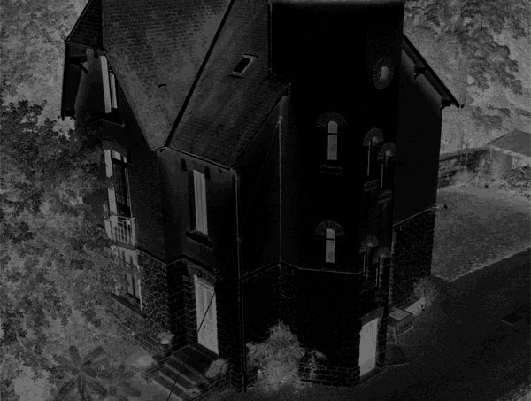 Black Houses